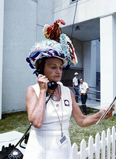 Mary Bubb, American space reporter known for being the first woman journalist covering NASA launches and for her distinctive hats.